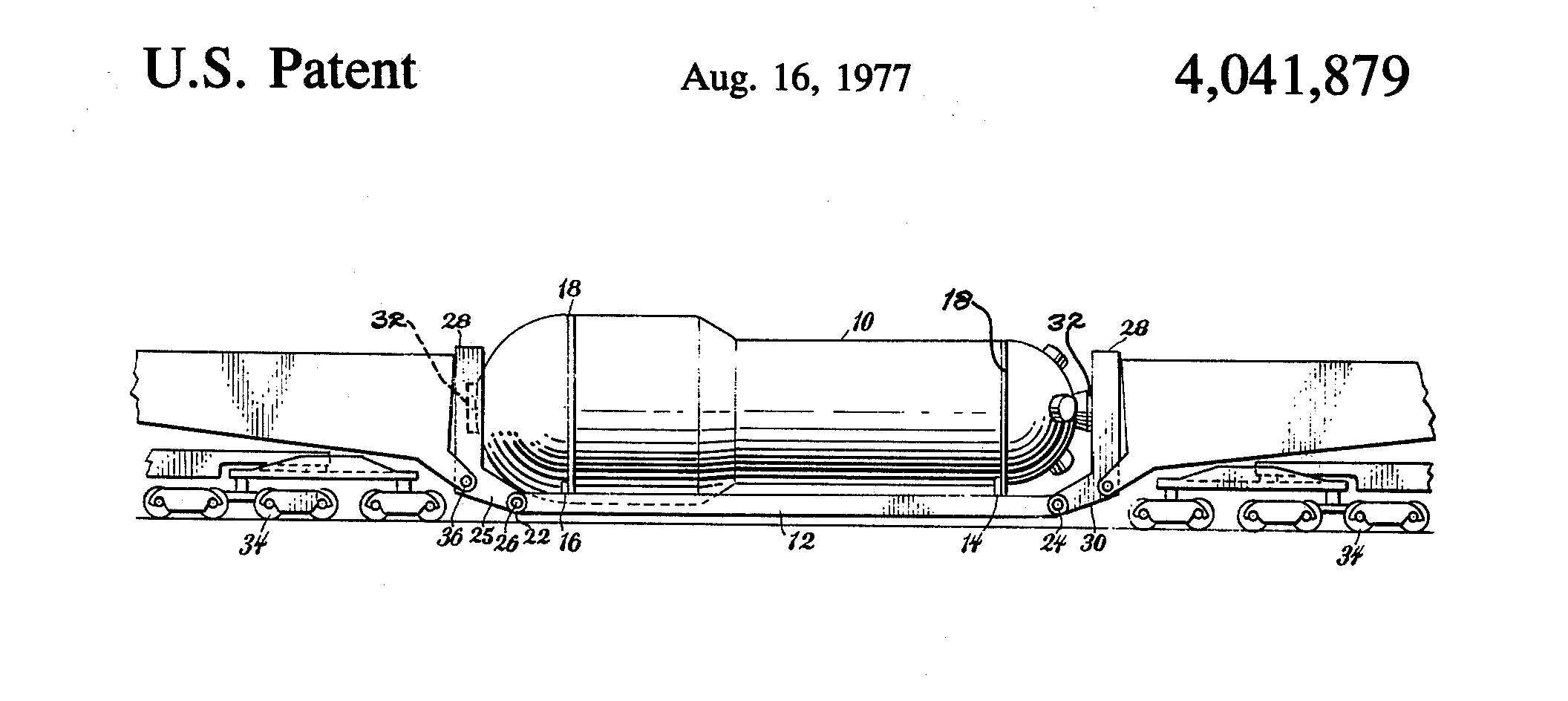 US Patent image for the Schnabel car design.